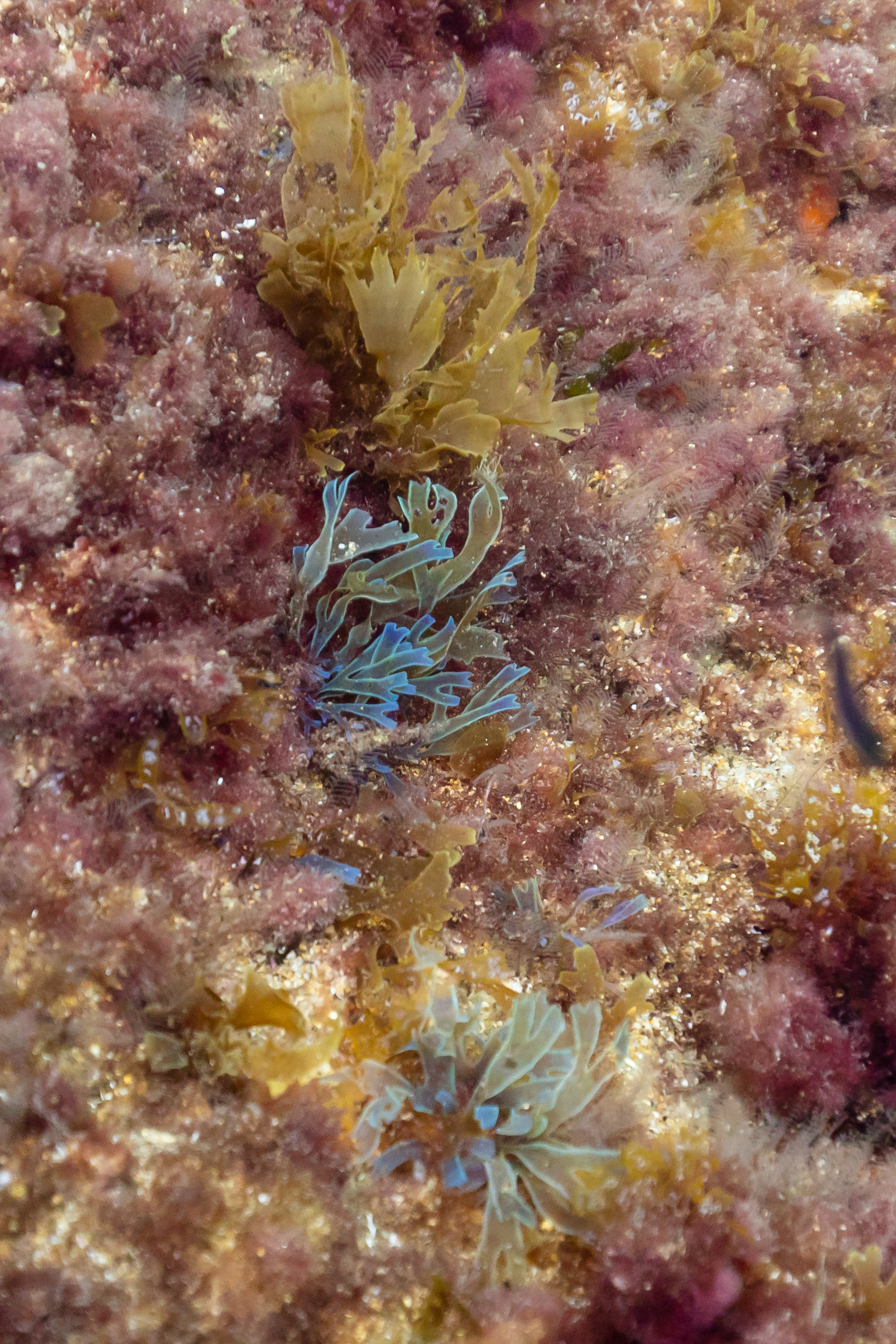 Seaweed (Dictyota dichotoma), Mouro Island, Santander, Spain